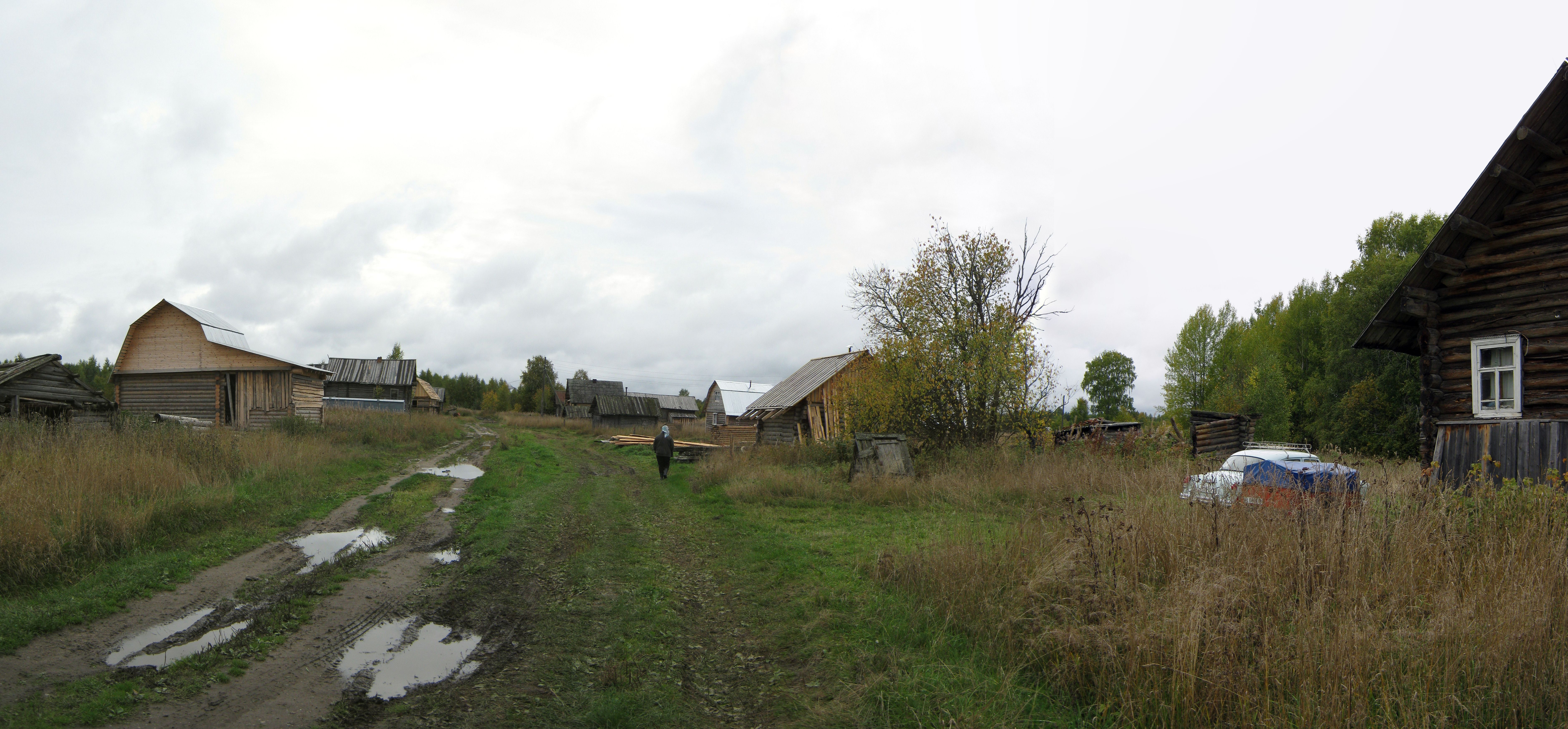 kema derevnya